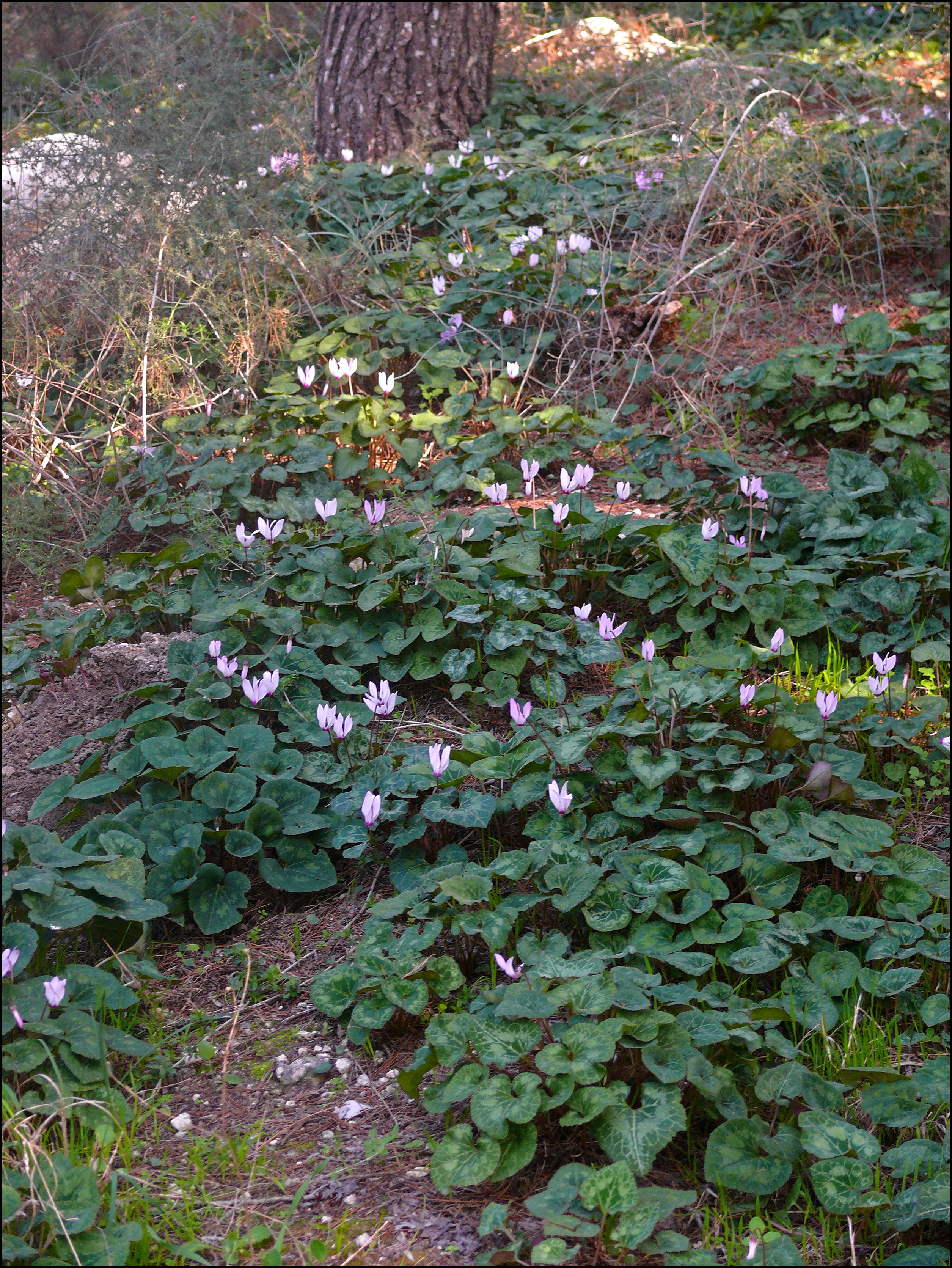 Cyclamen persicum Hill, Tal Shachar/Tal Shahar, Israel